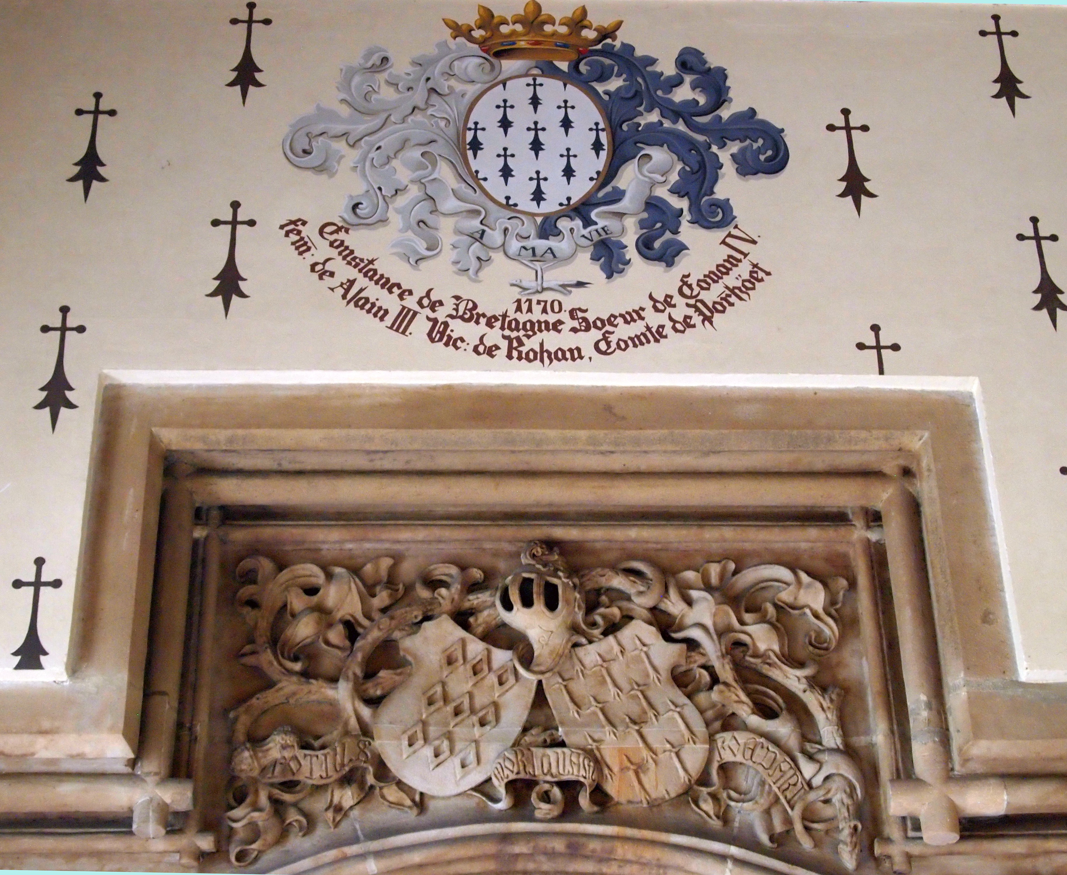 Coat of arms of Constance de Bretagne (1161-1201), castle Žleby, Czech Republic